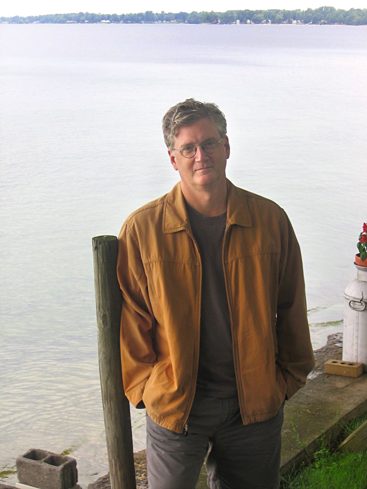 Jonathan Dee, Author photo.